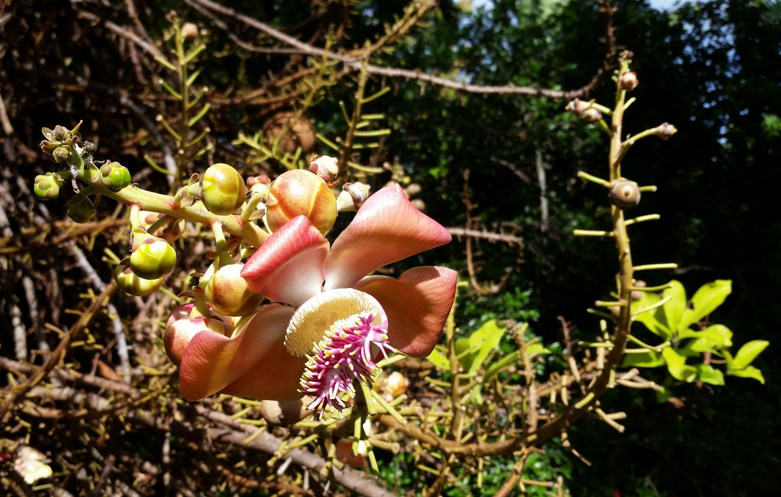 Flower of Cannonball tree, Couroupita guianensis, at Foster Botanical Garden in Honolulu, as if flickr needs another photo of this.